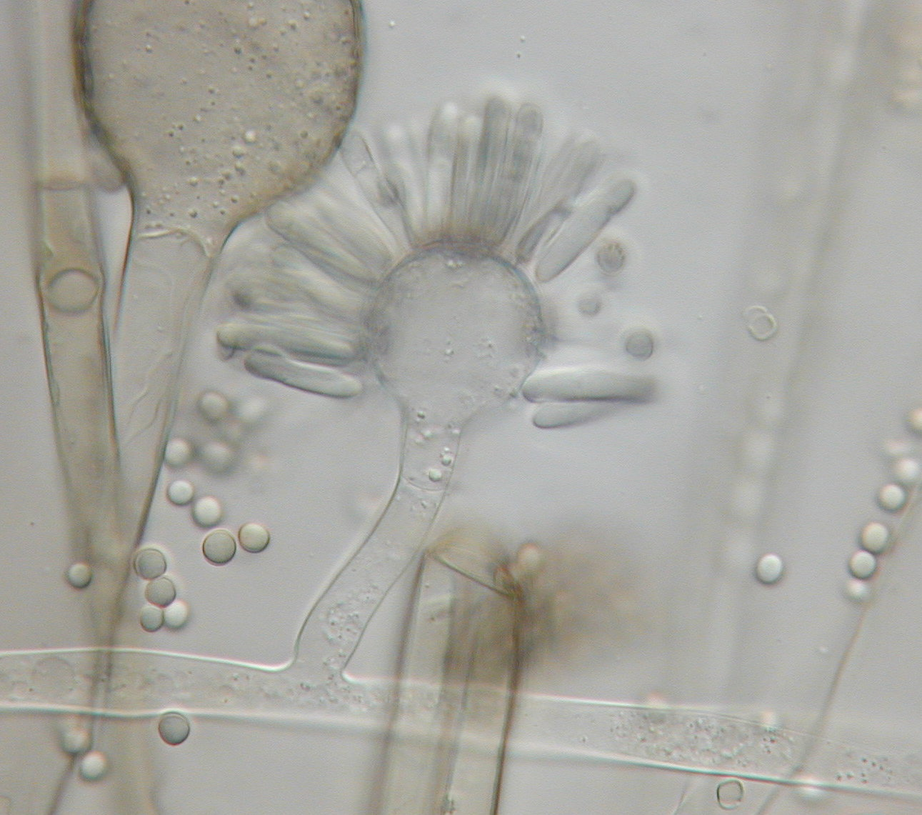 Sporangiophores of Syncephalastrum racemosum in bright field microscopy